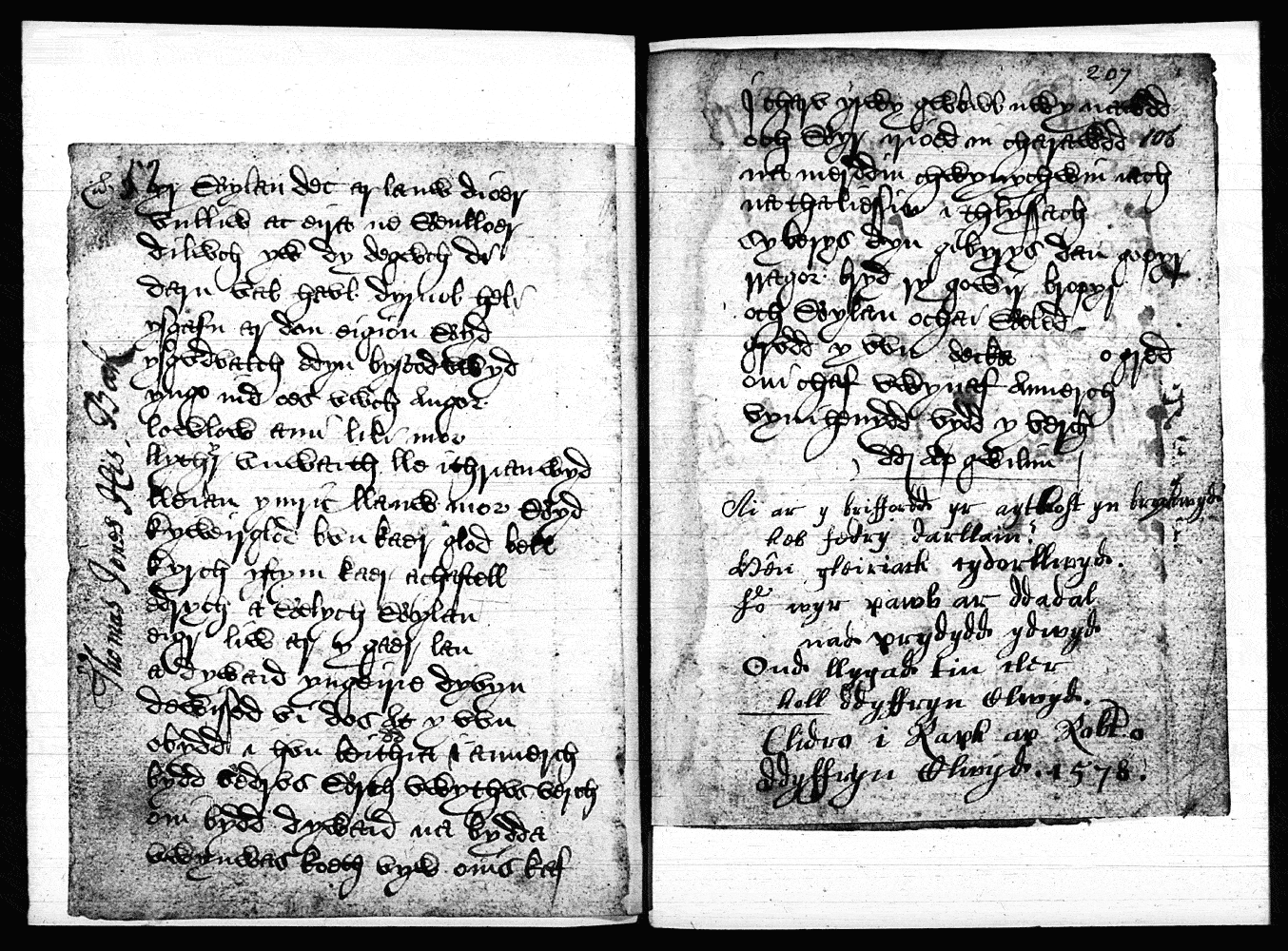 BL Add. MS 14997, a manuscript from around the year 1500 of the poem "Yr Wylan" by Dafydd ap Gwilym.